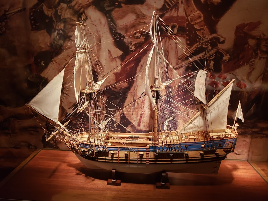 Model of the pirate ship Queen Anne's Revenge in the NC Museum of History.